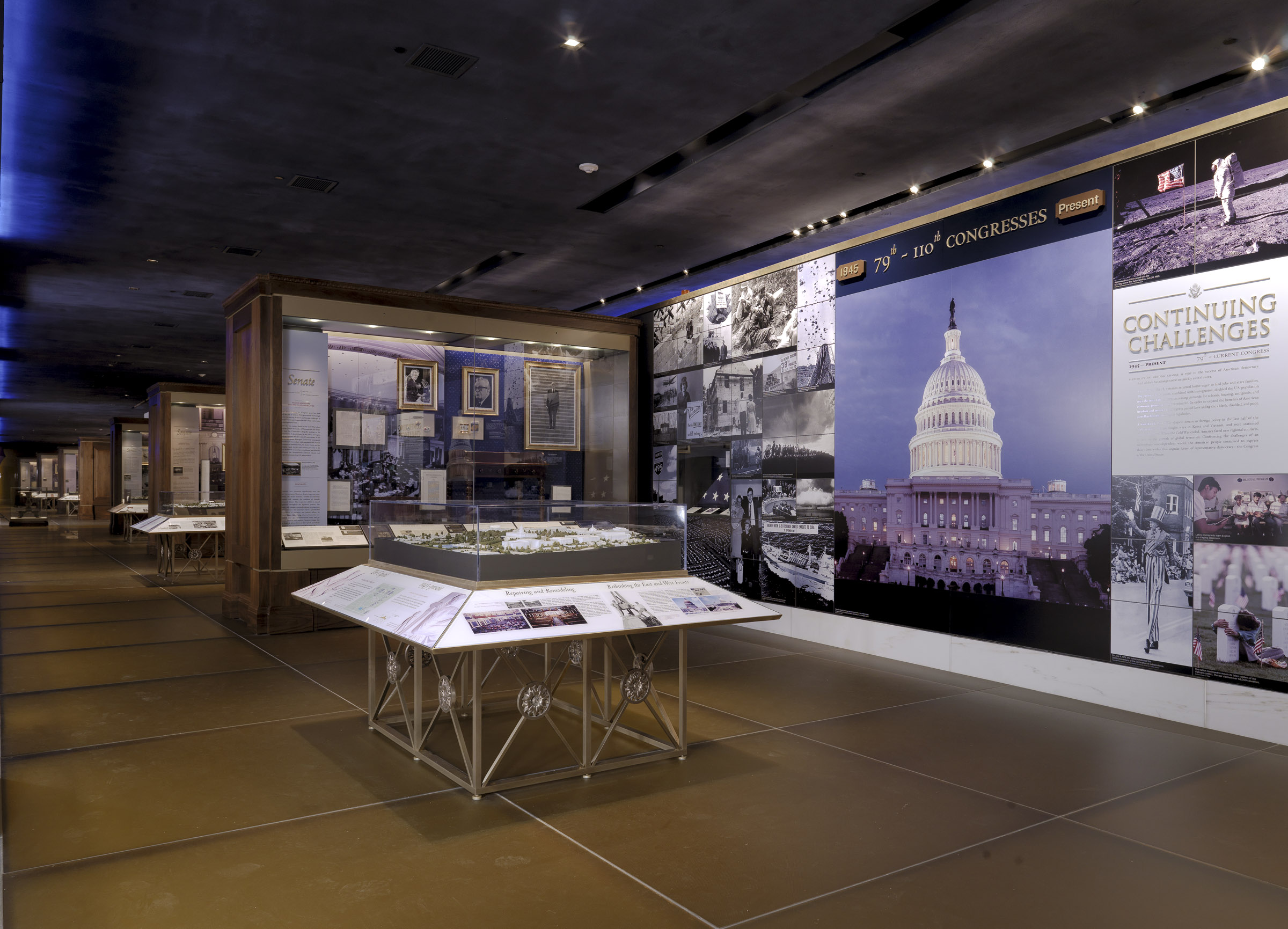 Exhibition-Hall of the Capitol Visitor Center